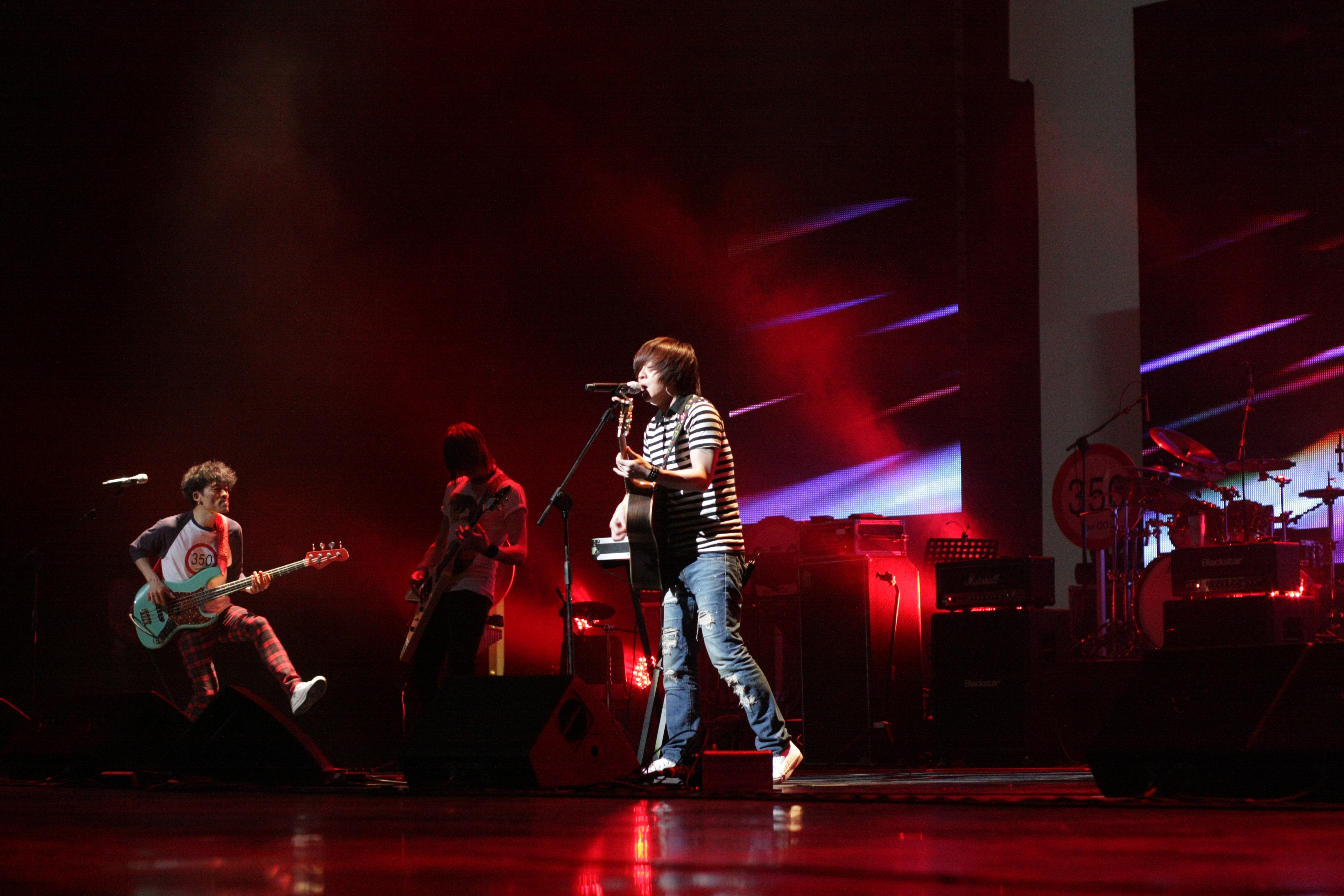 YB (band), Rock music groups from South Korea. Yoon Do Hyun Band